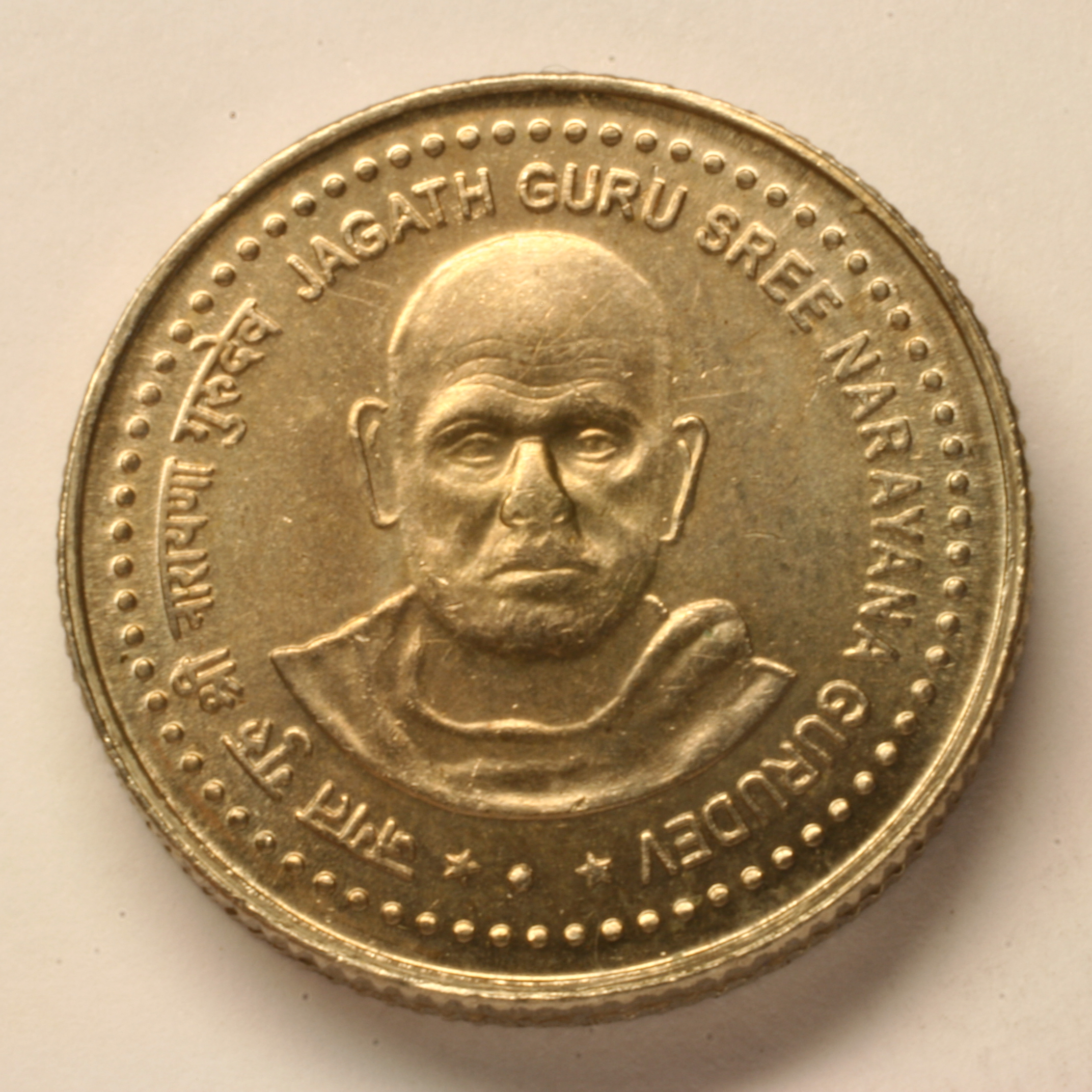 Narayana Guru Commemerative Coin Issued in India on September 2006.